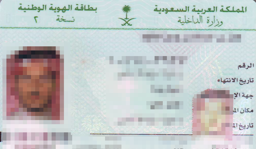 2nd edition. Old cover photography in colour.